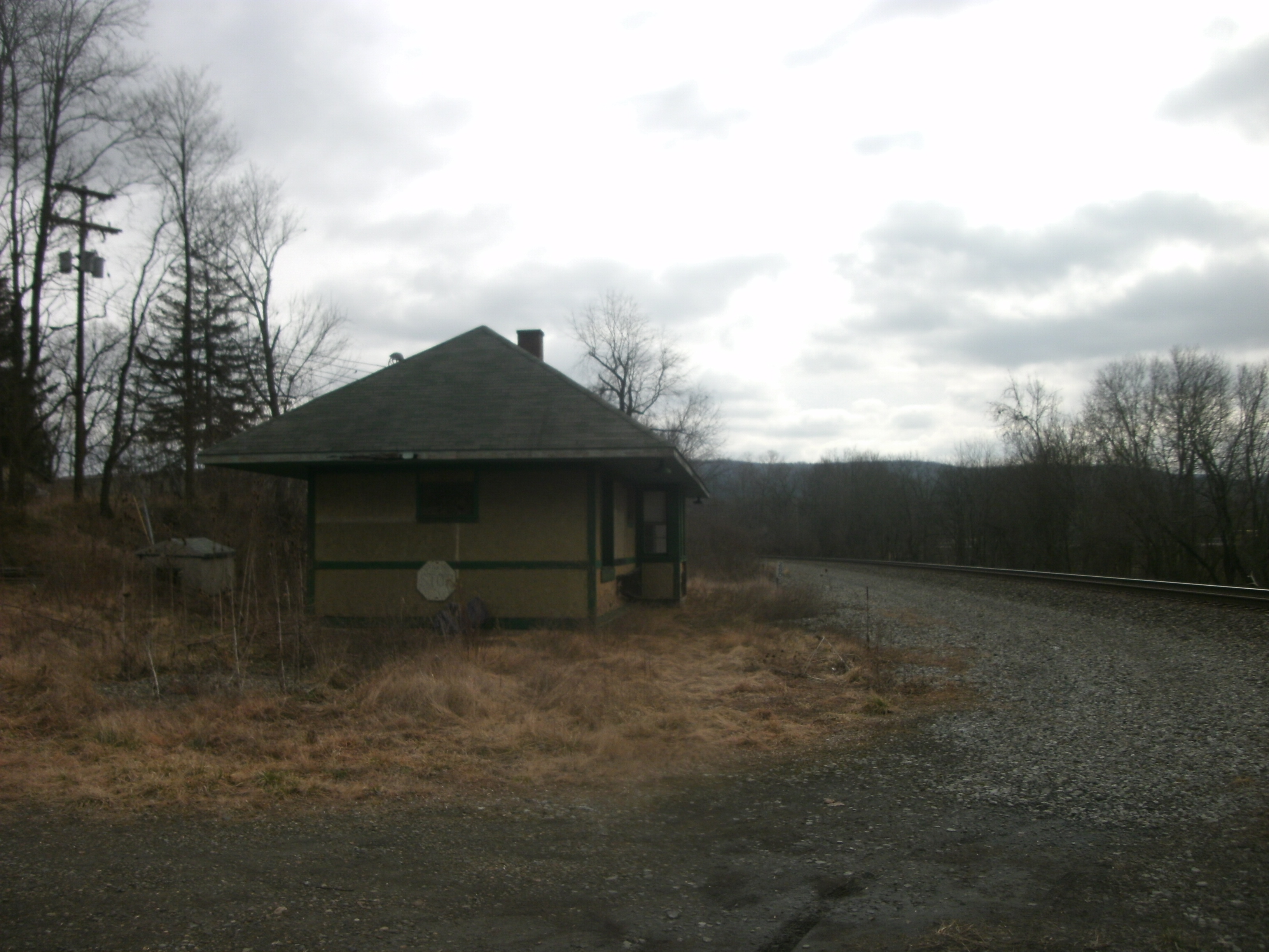 Chemung Station on the Erie Railroad as seen in 2012, long after abandonment.